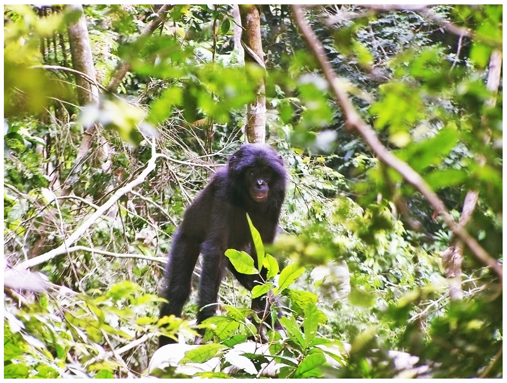 Juvenile bonobo in the natural environment at Lui Kotale.